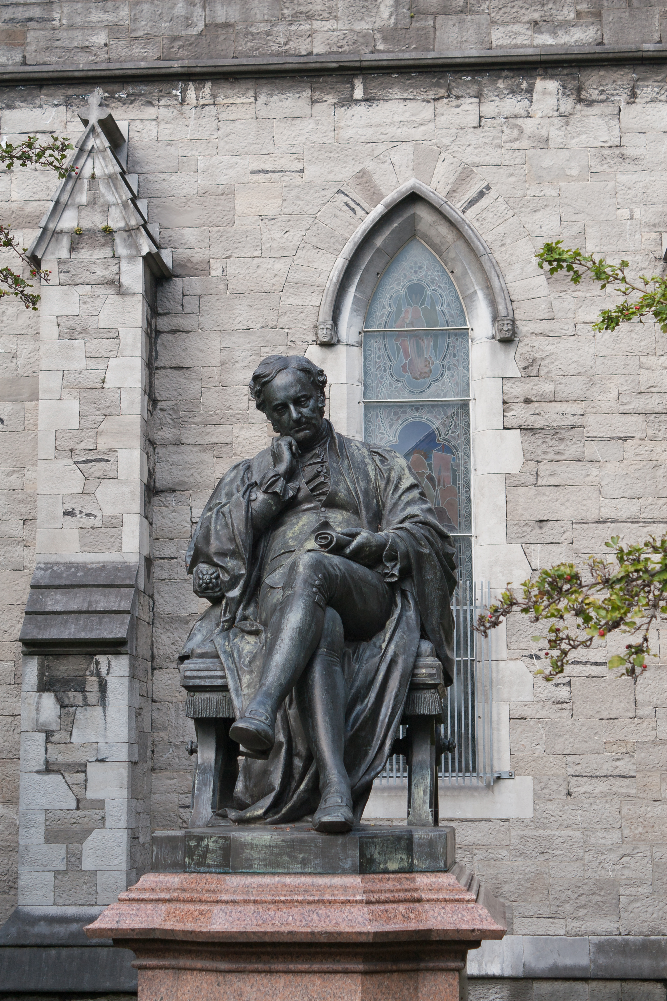 Statue of Sir Benjamin Lee Guinness at the south side of St. Patrick's Cathedral. John Henry Foley (1818–1874) DescriptionIrish sculptorDate of birth/death 24 May 1818 27 August 1874 Location of birth/death Dublin LondonWork location London Authority control : Q1925736 VIAF: 74125725 ISNI: 0000 0001 2139 7340 ULAN: 500248701 LCCN: n00030920 Oxford Dict.: 9786 WorldCat creator QS:P170,Q1925736